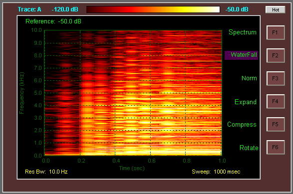 Spectrogram of the first second of an E9 chord played on a Fender Stratocaster with noiseless pickups. Courtesy Mike Tribulas. Spectrogram generated with Fatpigdog's Real Time FFT Spectrum Analyzer.